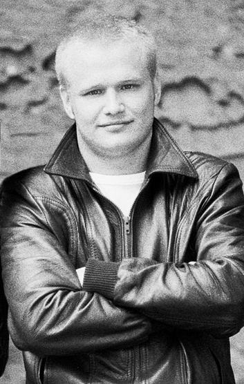 Maukka Perusjätkä in Kill City 1979